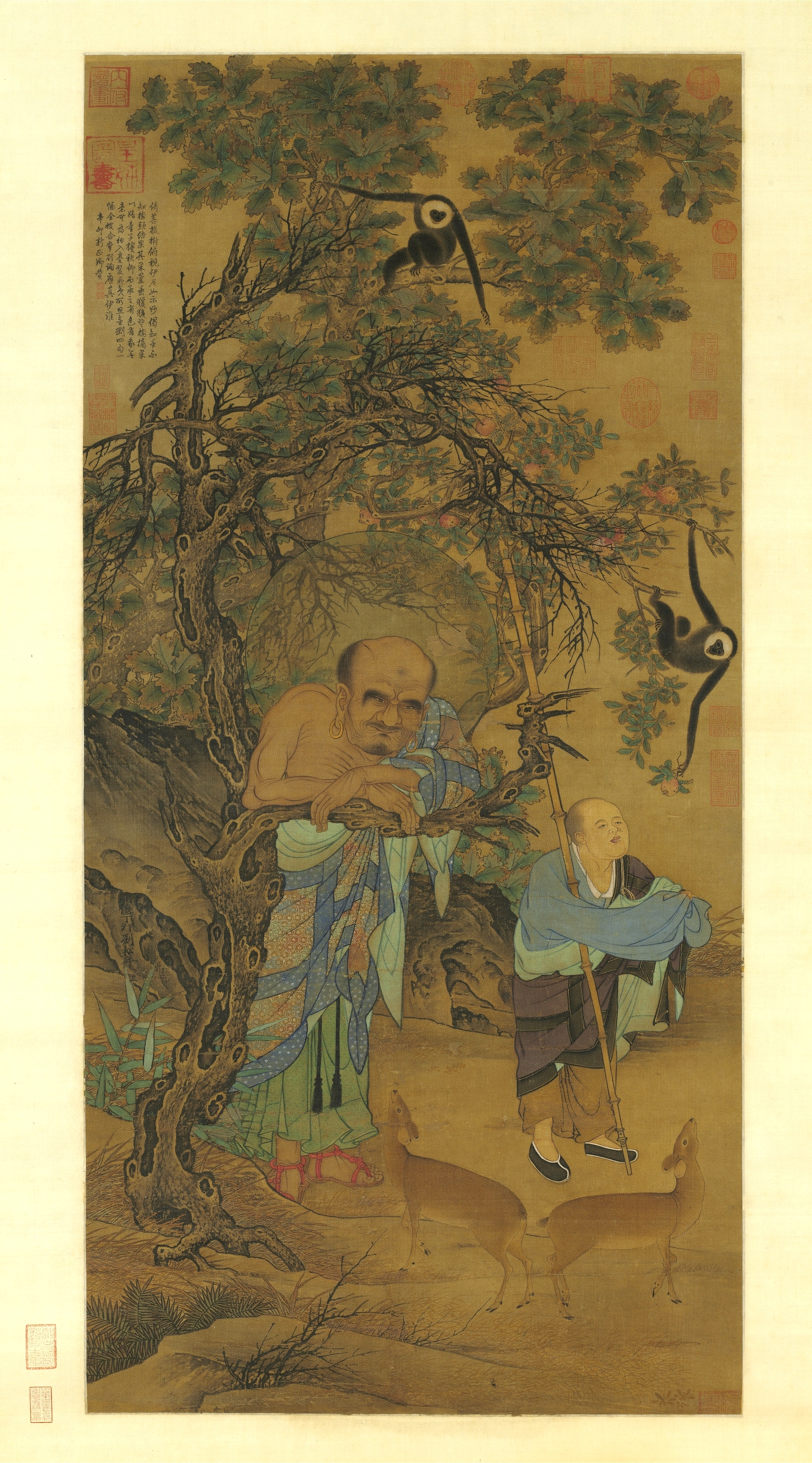 Luohan, by Chinese artist Liu Songnian. Ink and color on silk.